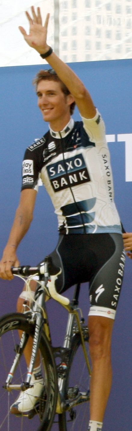 Andy Schleck at the team presentation of the 2010 Tour de France in Rotterdam